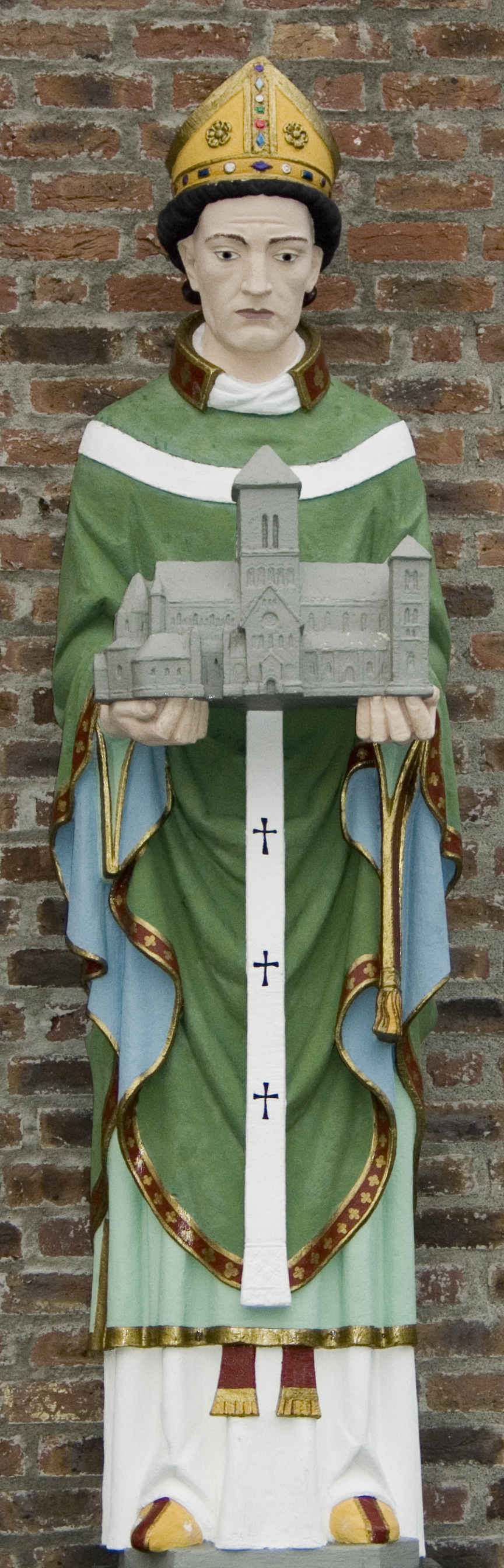 Saint Eystein, Augustinus Nidrosiensis, from Erkebispegården in Trondheim